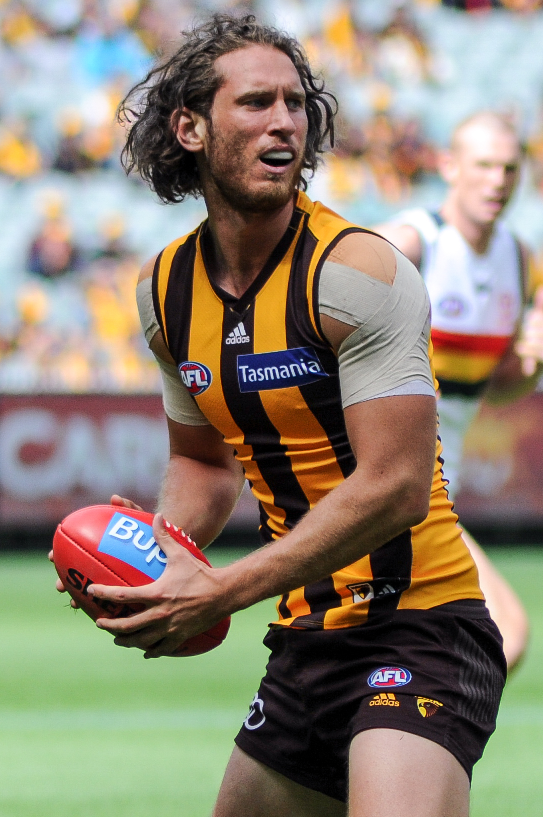 Ty Vickery during the AFL round two match between Hawthorn and Adelaide on 1 April 2017 at the Melbourne Cricket Ground in Melbourne, Victoria.